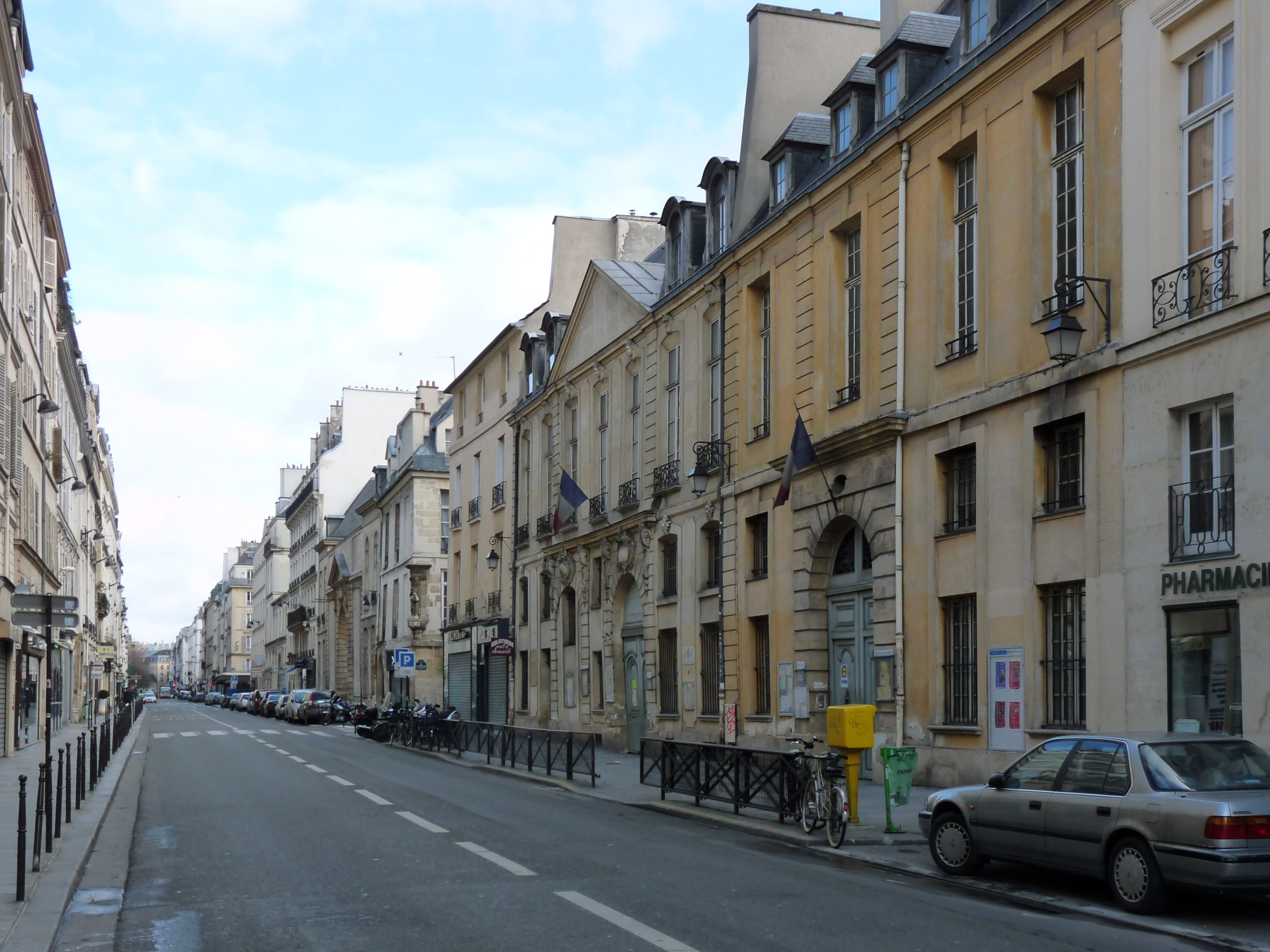 Eastern side of rue de Turenne in Paris, seen from the rue du Parc Royal.